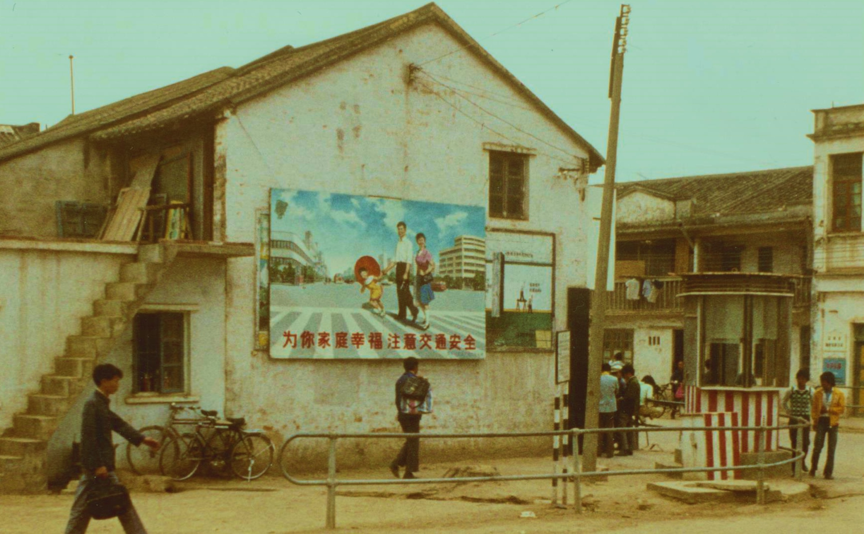 A propaganda poster shows the bright future of a post-maoist China with a modern consumer society and a one- child family